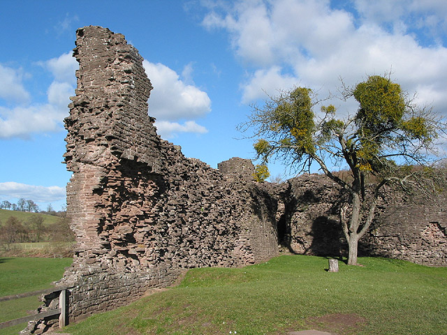 Ruined curtain wall of Skenfrith Castle A castle probably existed on the site in Norman times, but this stone structure was built between 1228 and 1232 by Hubert de Burgh, a powerful Marcher lord.